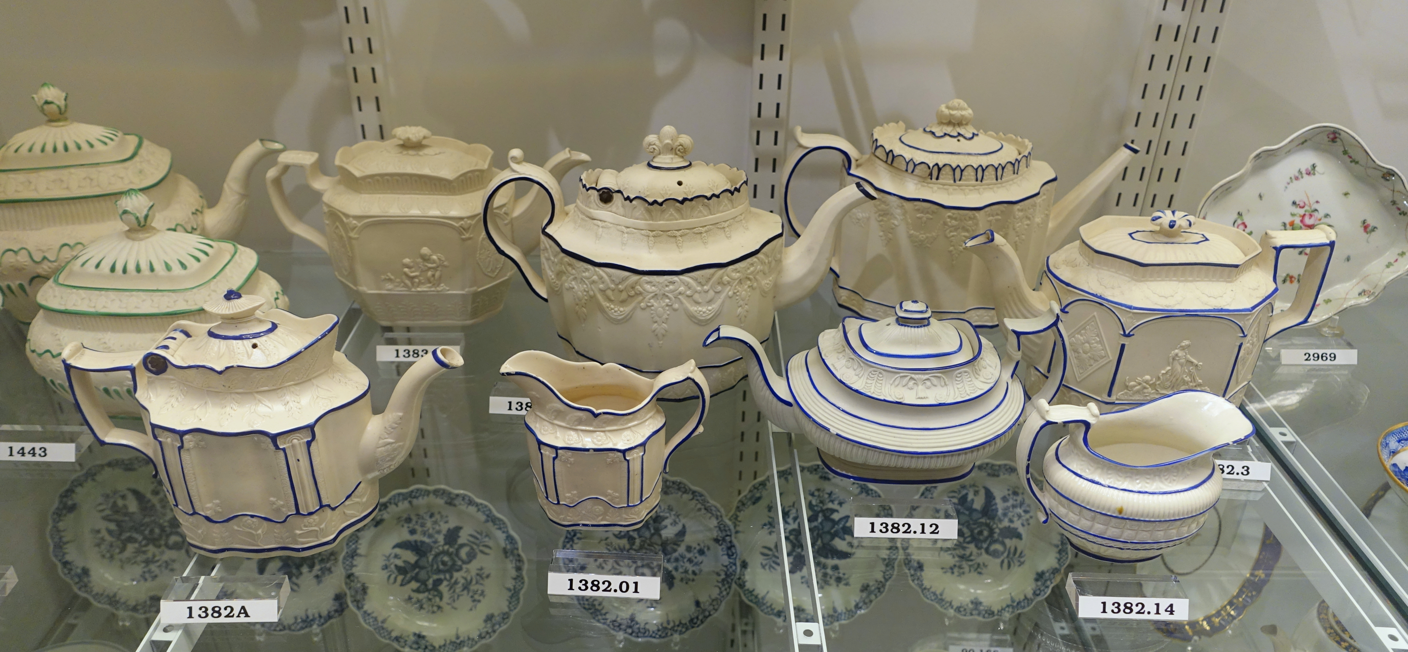 Exhibit in the Flynt Center of Early New England Life, Historic Deerfield - Deerfield, Massachusetts, USA.